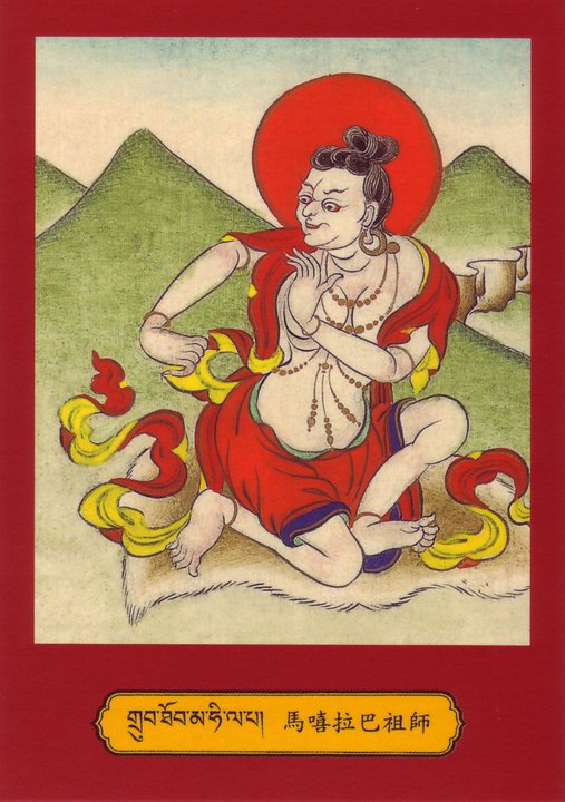 Mahidhar pa- 9th Century Buddhist Mahasiddha